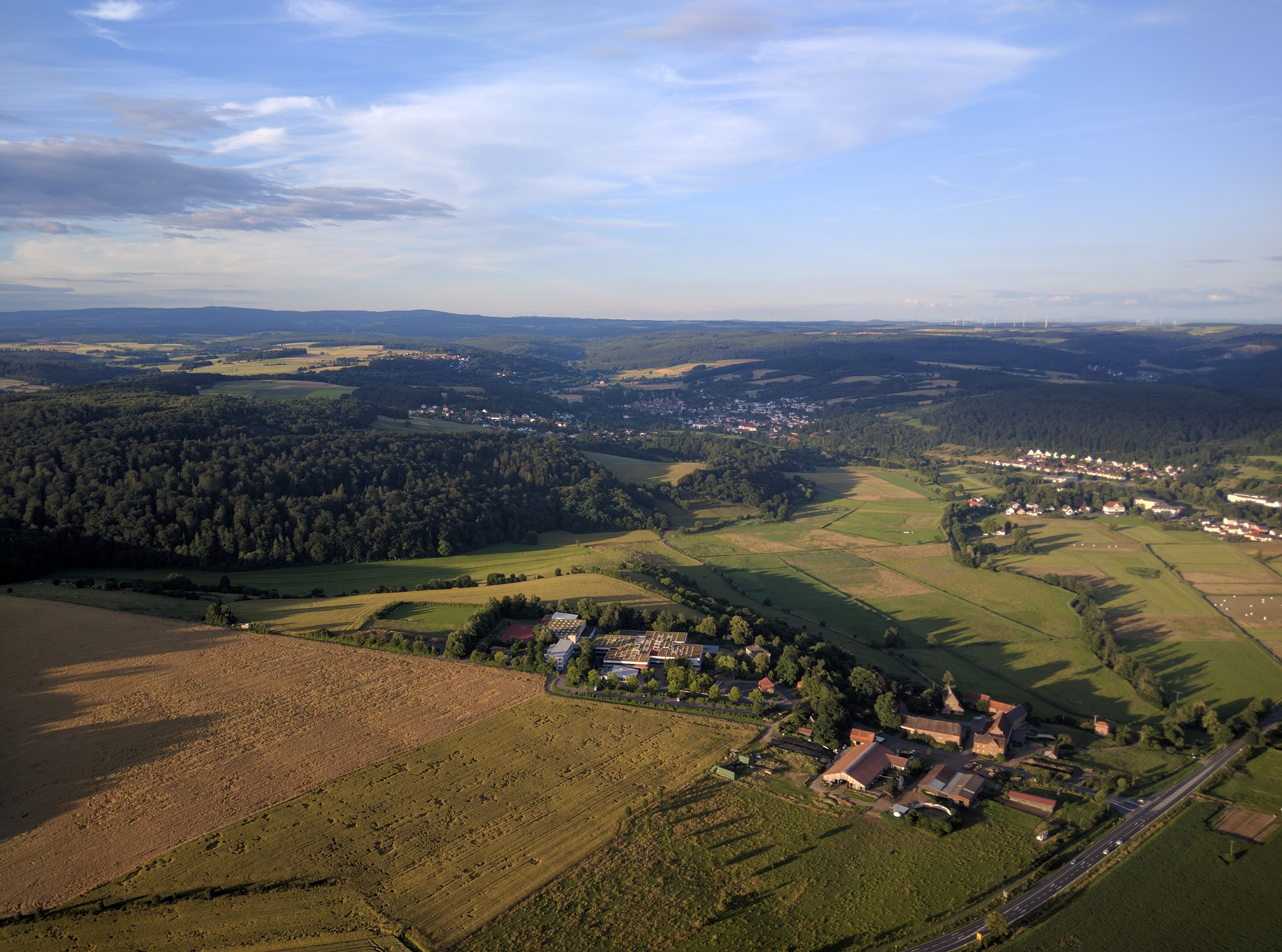 Aerial view of Konradsdorf from the southwestern direction (Viewing angle 61° mag. alignment) at an altitude of 478m above sea level. The town in the background is Ortenberg.